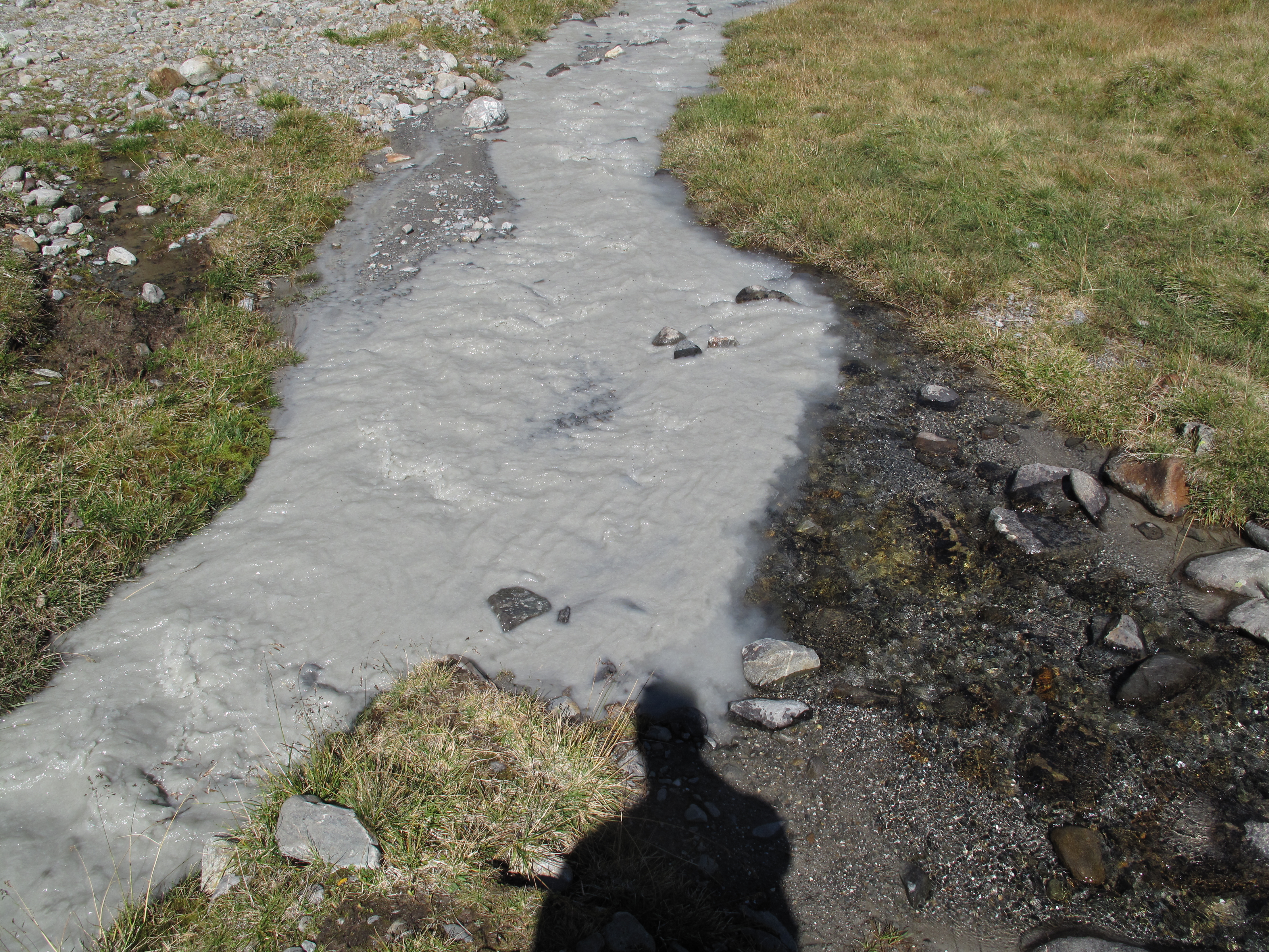 Fluvio-glacial